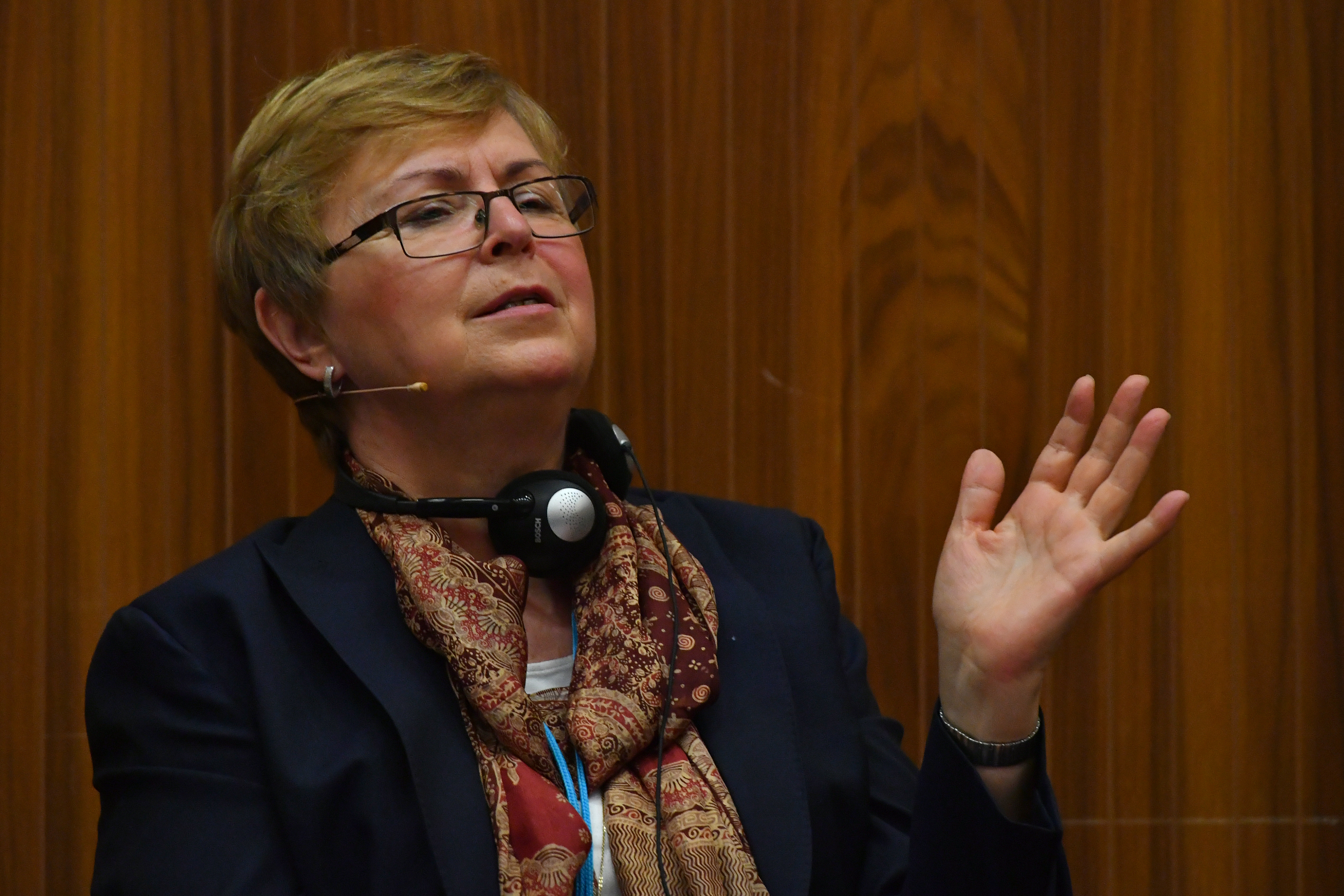 Marta Ziakova The four candidates for IAEA Director General, Cornel Feruta, IAEA Acting Director General and candidate from Romania, Rafael Mariano Grossi, Argentina’s Ambassador to Austria and Resident Representative to International Organizations in Vienna, Lassina Zerbo, Executive Secretary of the Comprehensive Nuclear-Test-Ban Treaty Organization and candidate from Burkina Faso and Marta Ziakova, Chairperson of the Nuclear Regulatory Authority of the Slovak Republic delivered their presentations to the IAEA Board of Governors on their candidature. IAEA, Vienna, Austria. 2 October 2019 Photo Credit: Dean Calma / IAEA